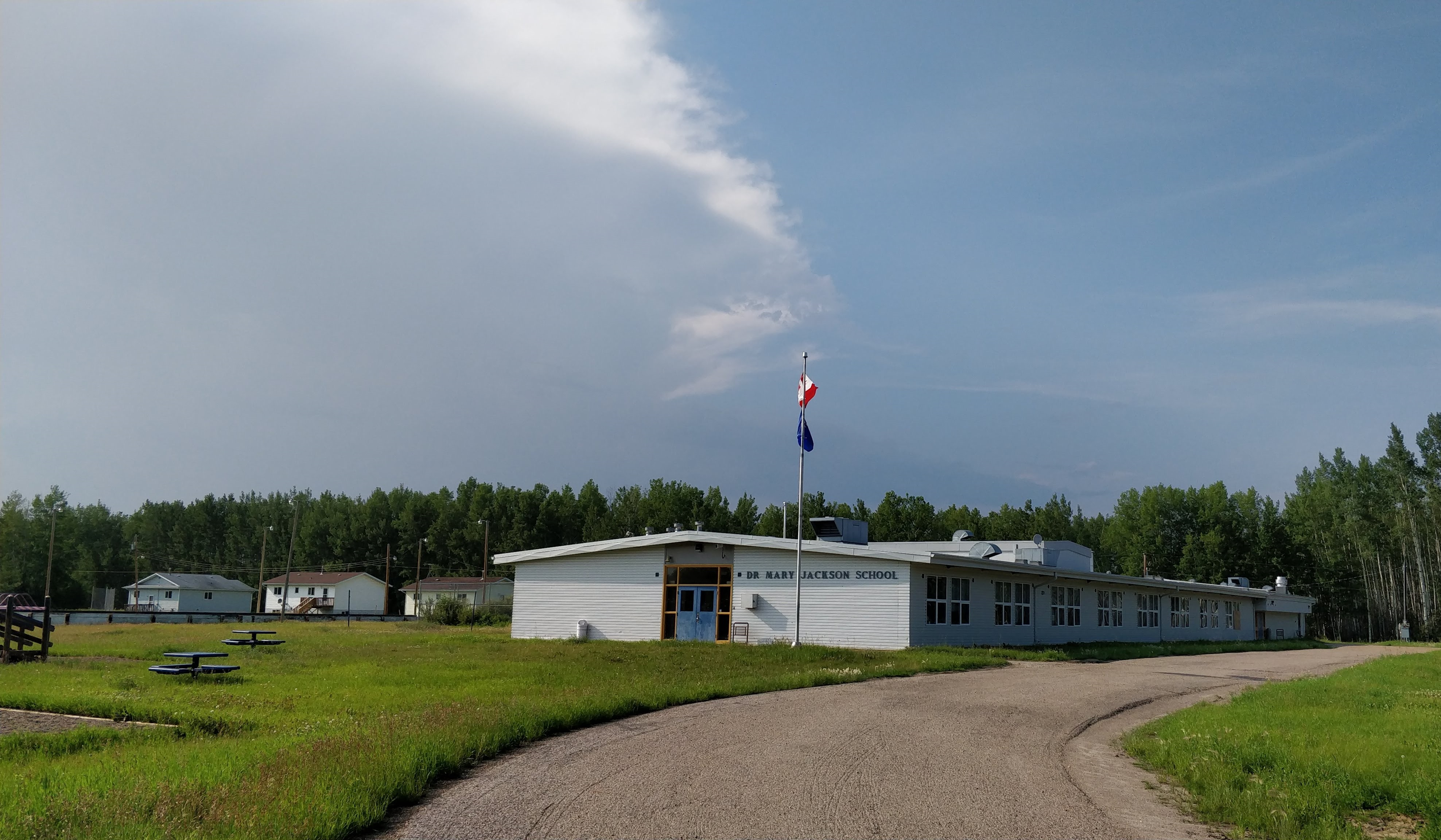 The isolated Dr. Mary Jackson School in Keg River, Alberta, closed soon after this picture was taken. Teachers are housed on the property.